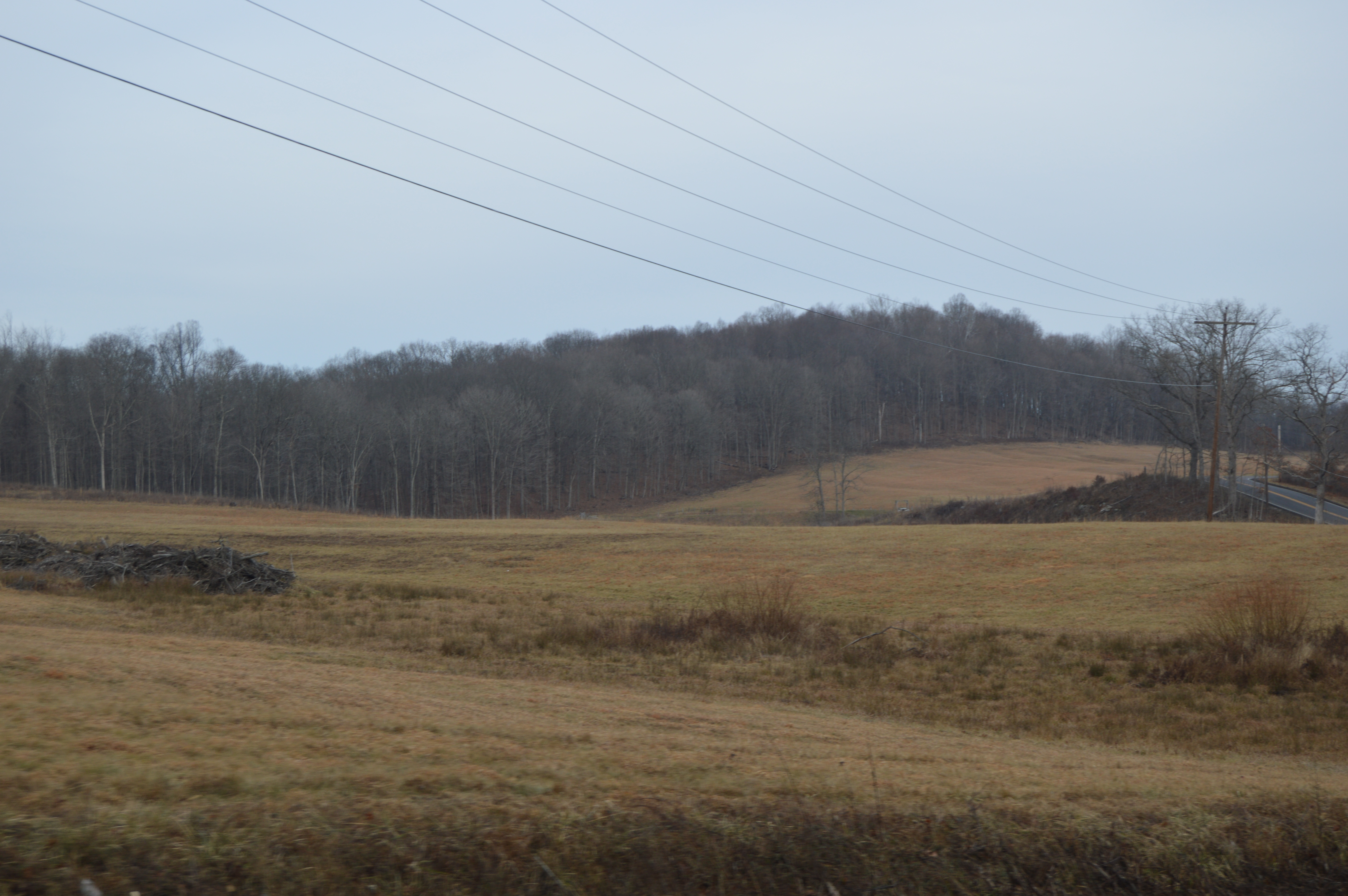 Fields on the western side of State Route 677 south of Zaleski in Elk Township, Vinton County, Ohio, United States.